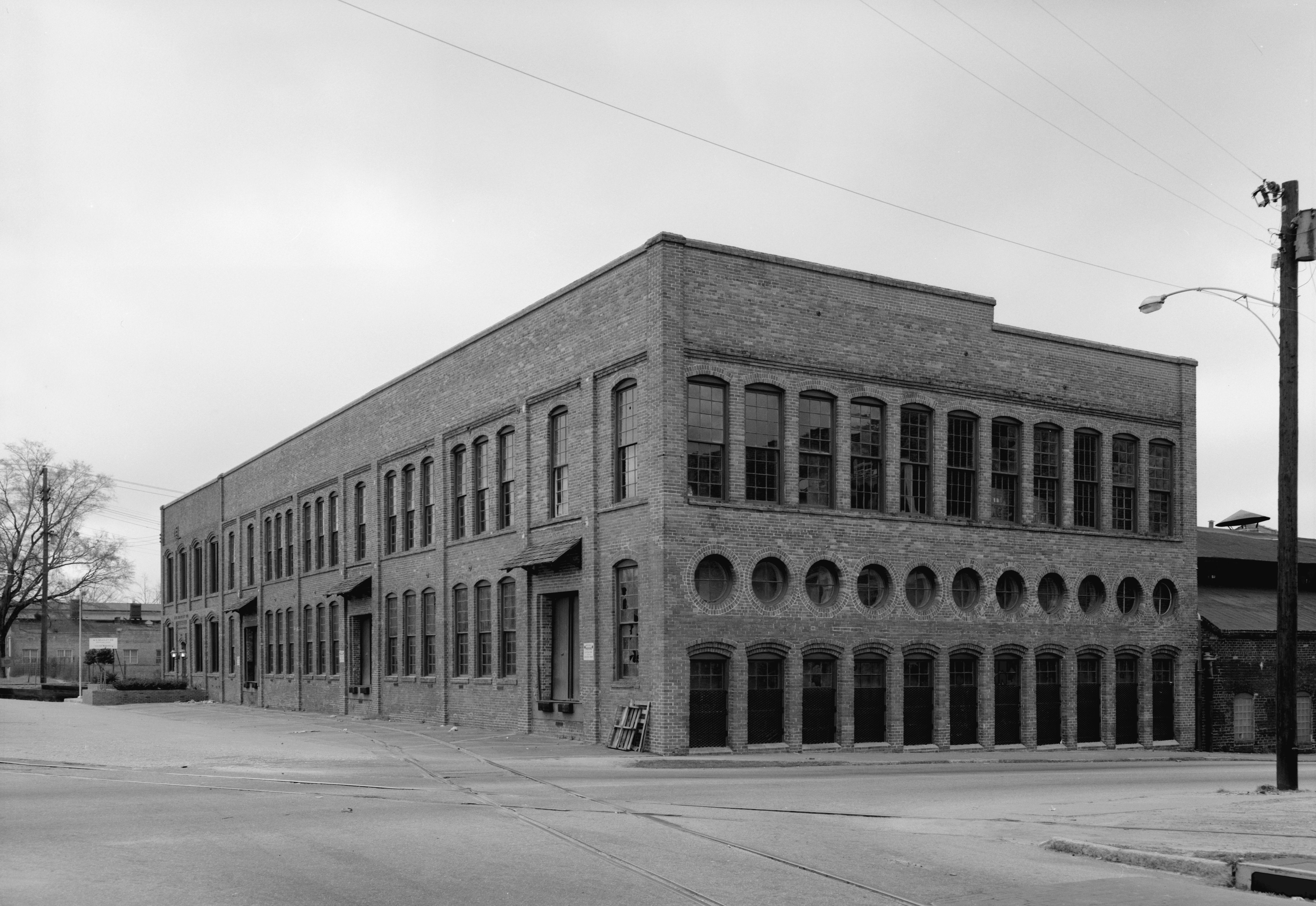 Columbus Iron Works, Front Avenue between Eighth & Tenth Streets, Columbus (Muscogee County, Georgia)